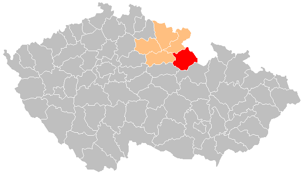 District of Rychnov nad Kněžnou